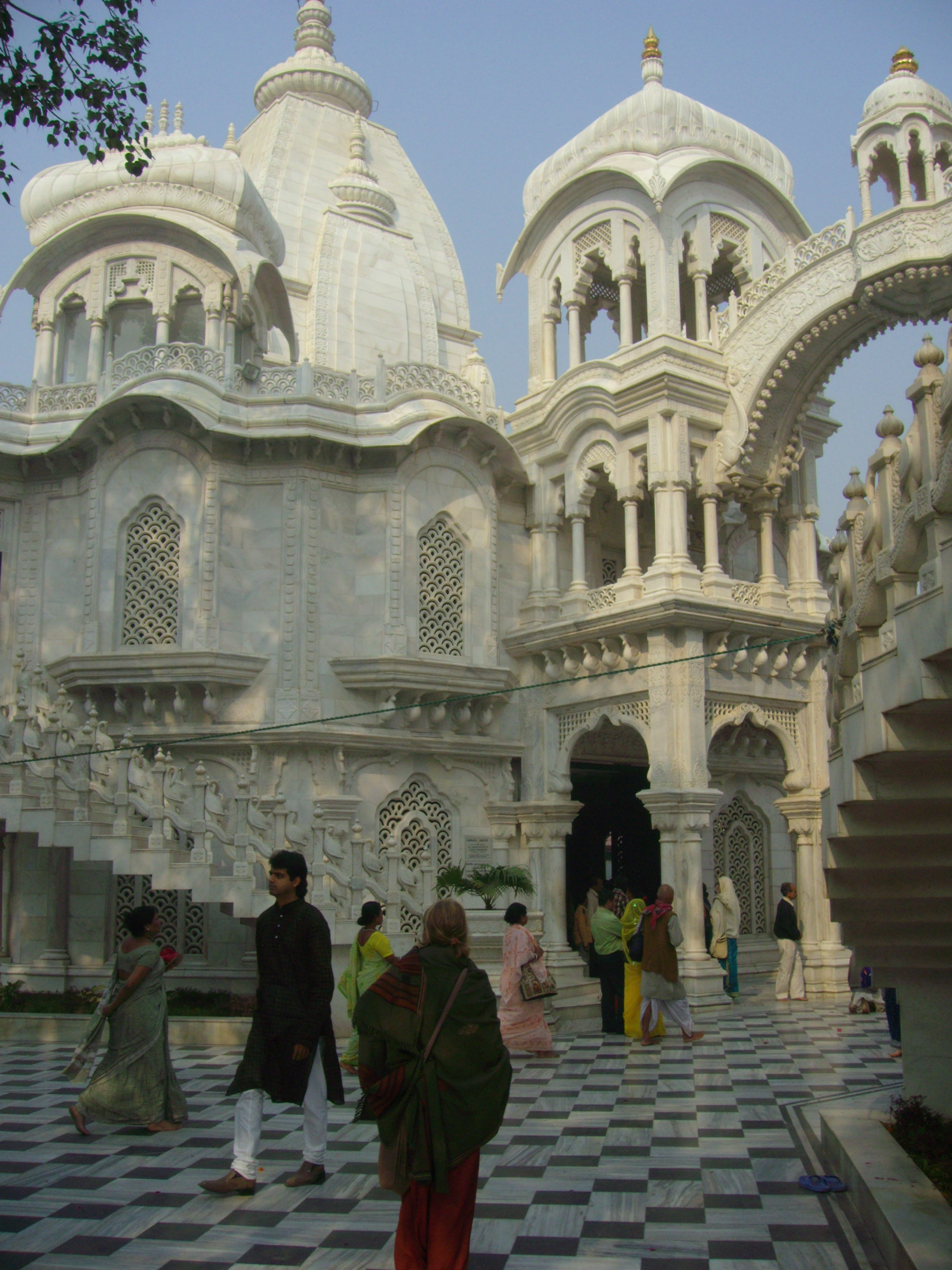 Krishna-Balaram-Mandir (ISKCON-Temple) in Vrindavan, UP, India